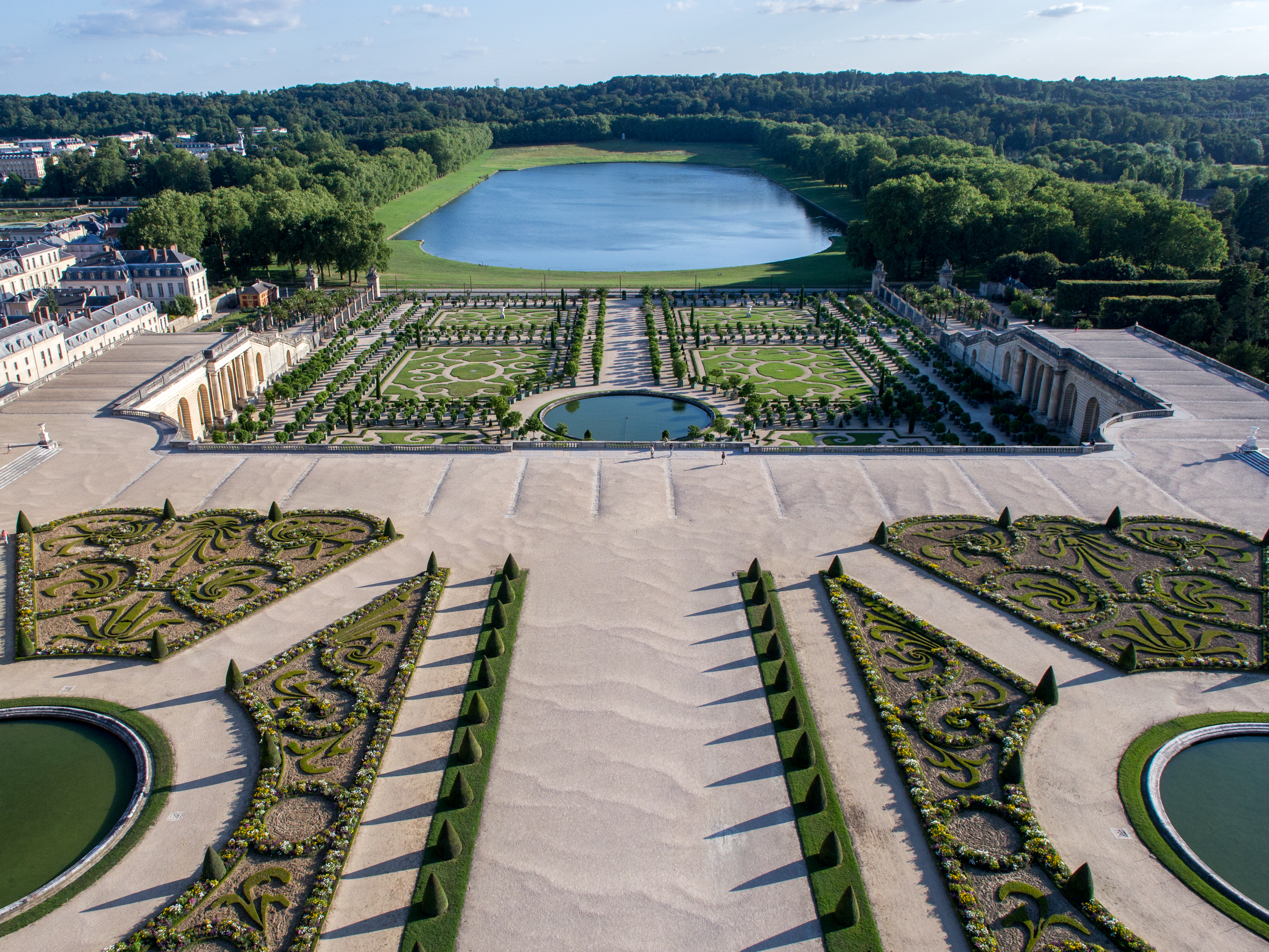 Aerial view of the Gardens of the Palace of Versailles, France, with the Parterre du Midi, Parterre de l'Orangerie et pièce d'eau des Suisses